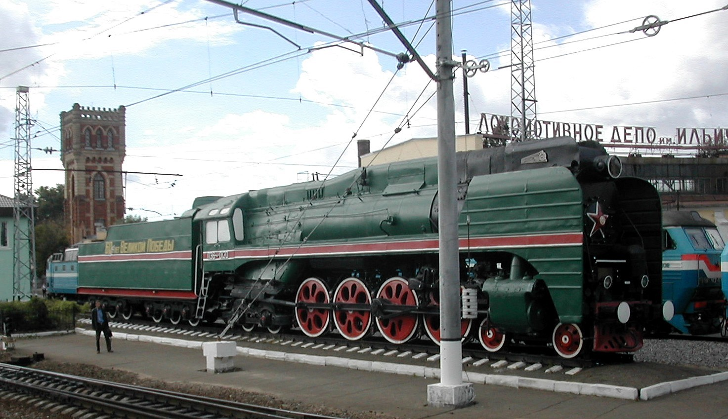 Steam locomotive P36-120 near in the Belarusky Moscow Railway Termnal